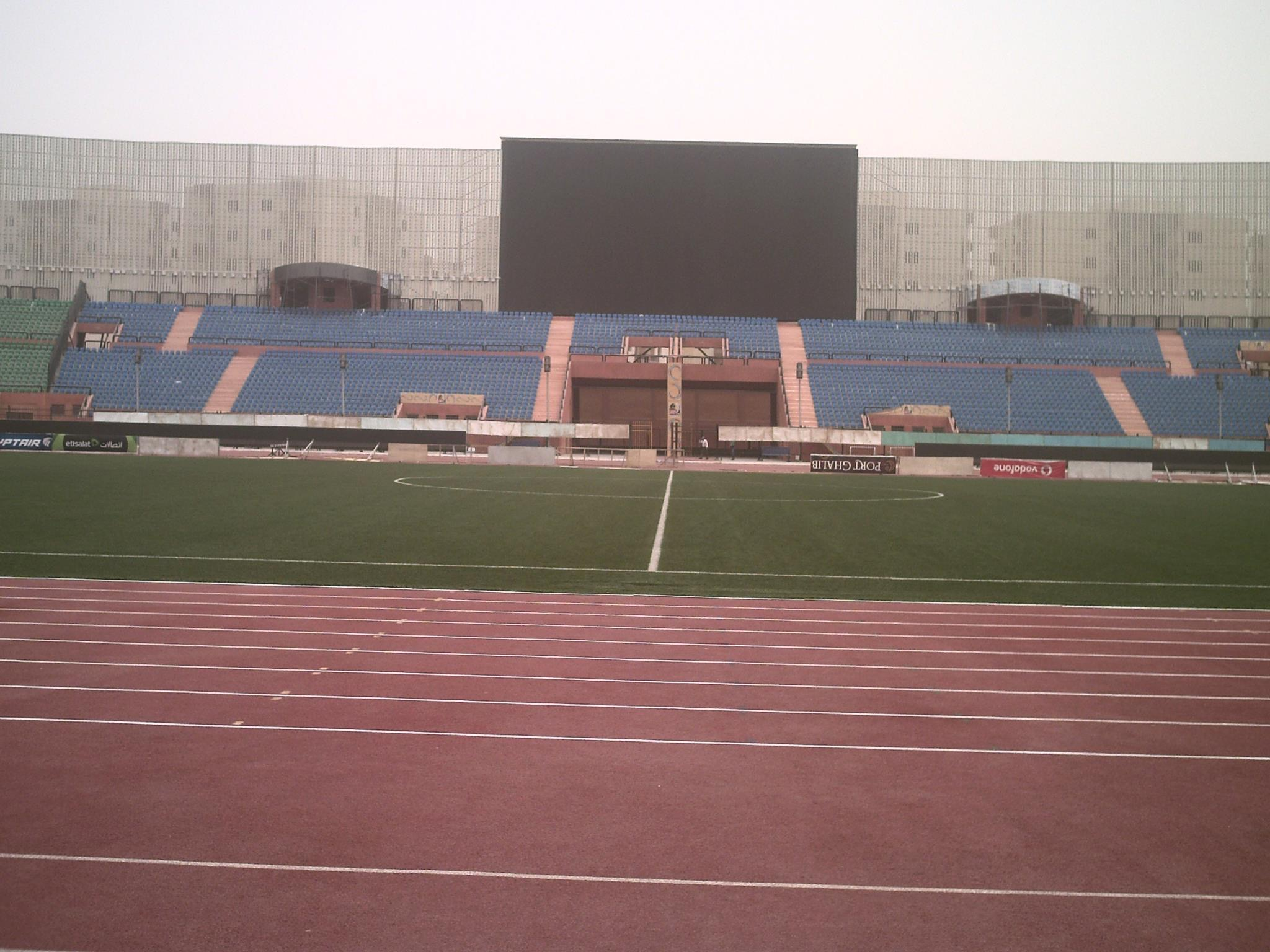 Al Salam Stadium, Cairo, Egypt.